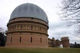 Yerkes Observatory, January 2006